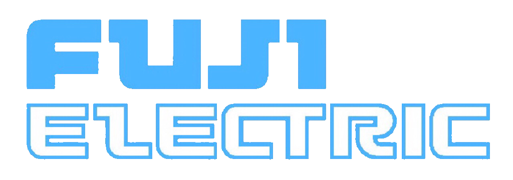 Old logo of Fuji Electric